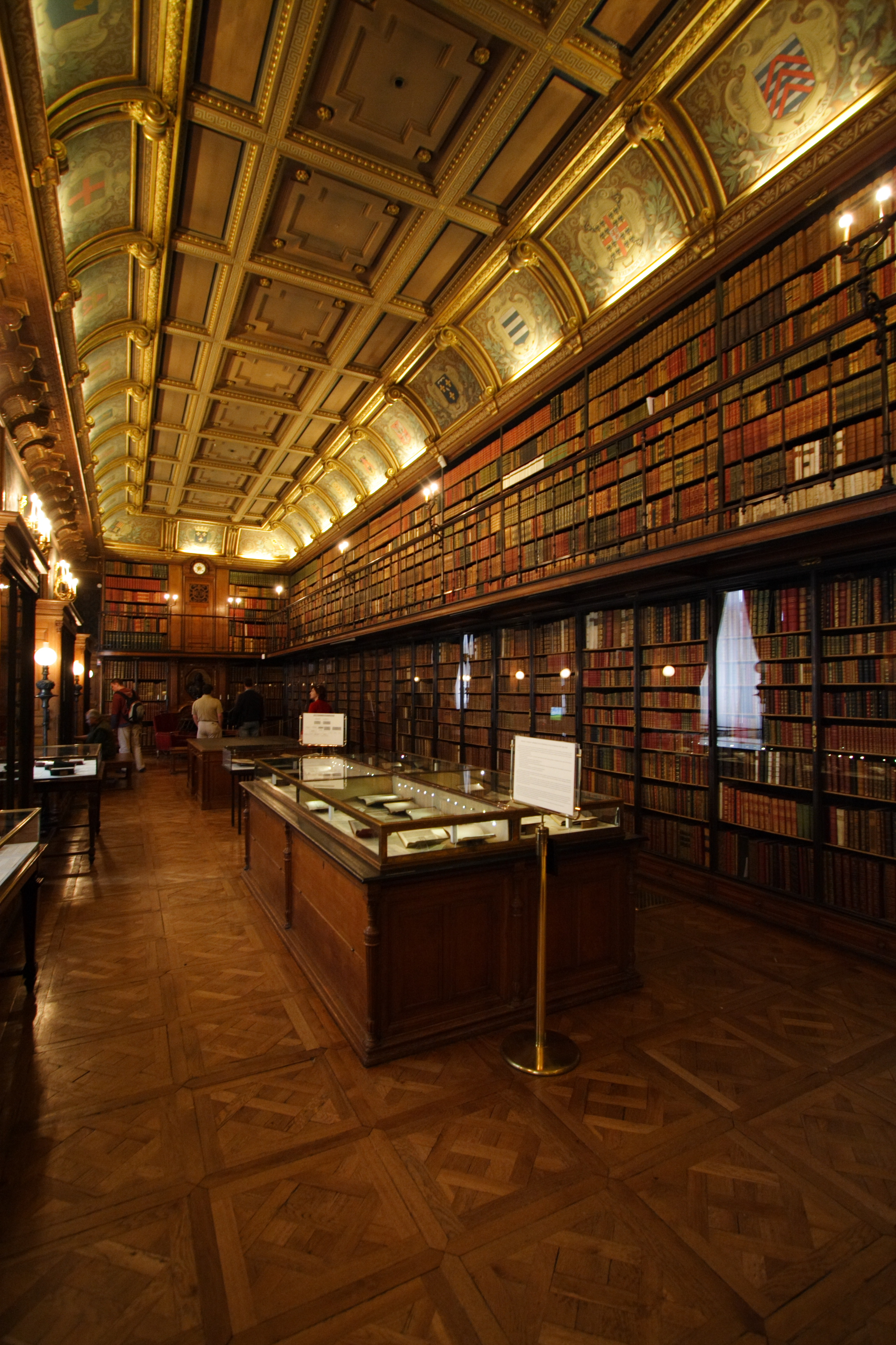 a library room in the castle(Chantilly, France)